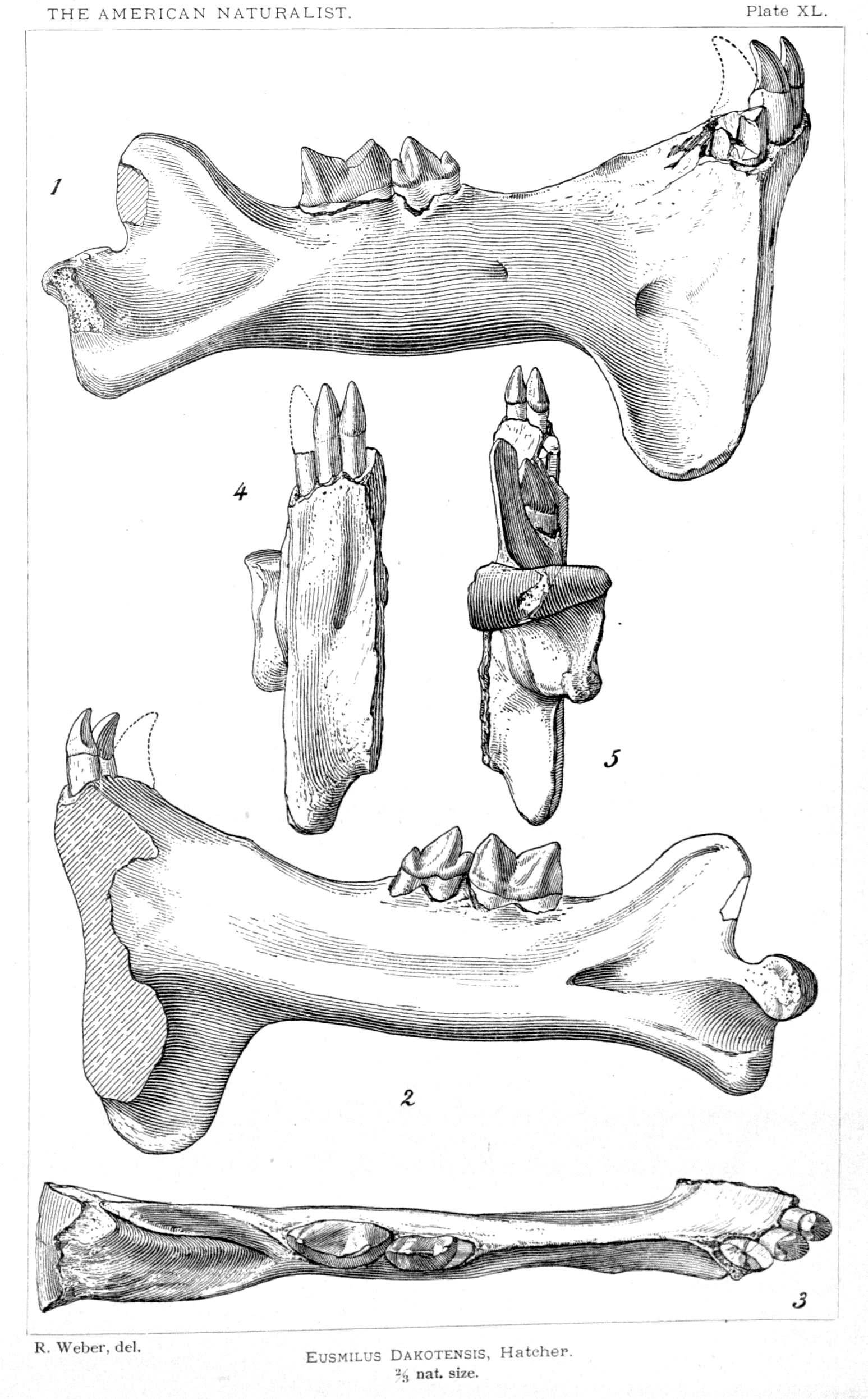 Historical drawing of YPM VPPU 011079 (previously PU 11079), the holotype specimen of Eusmilus dakotensis HATCHER 1895 (now Hoplophoneus dakotensis), a right mandibular ramus from the Brule Formation (“Protoceras beds”, Whitneyan, lower Oligocene) of South Dakota, in lateral (1), lingual/buccal (2), occlusal/dorsal (3), anterior/rostral (4), and posterior/caudal (5) views.